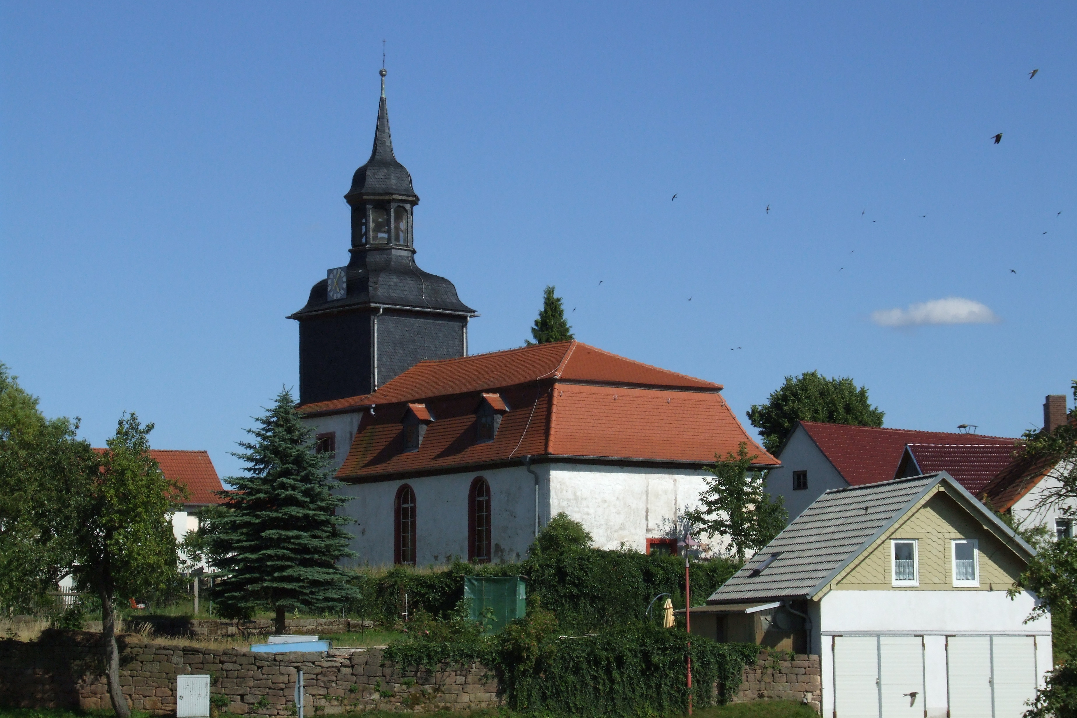 Church Neusitz